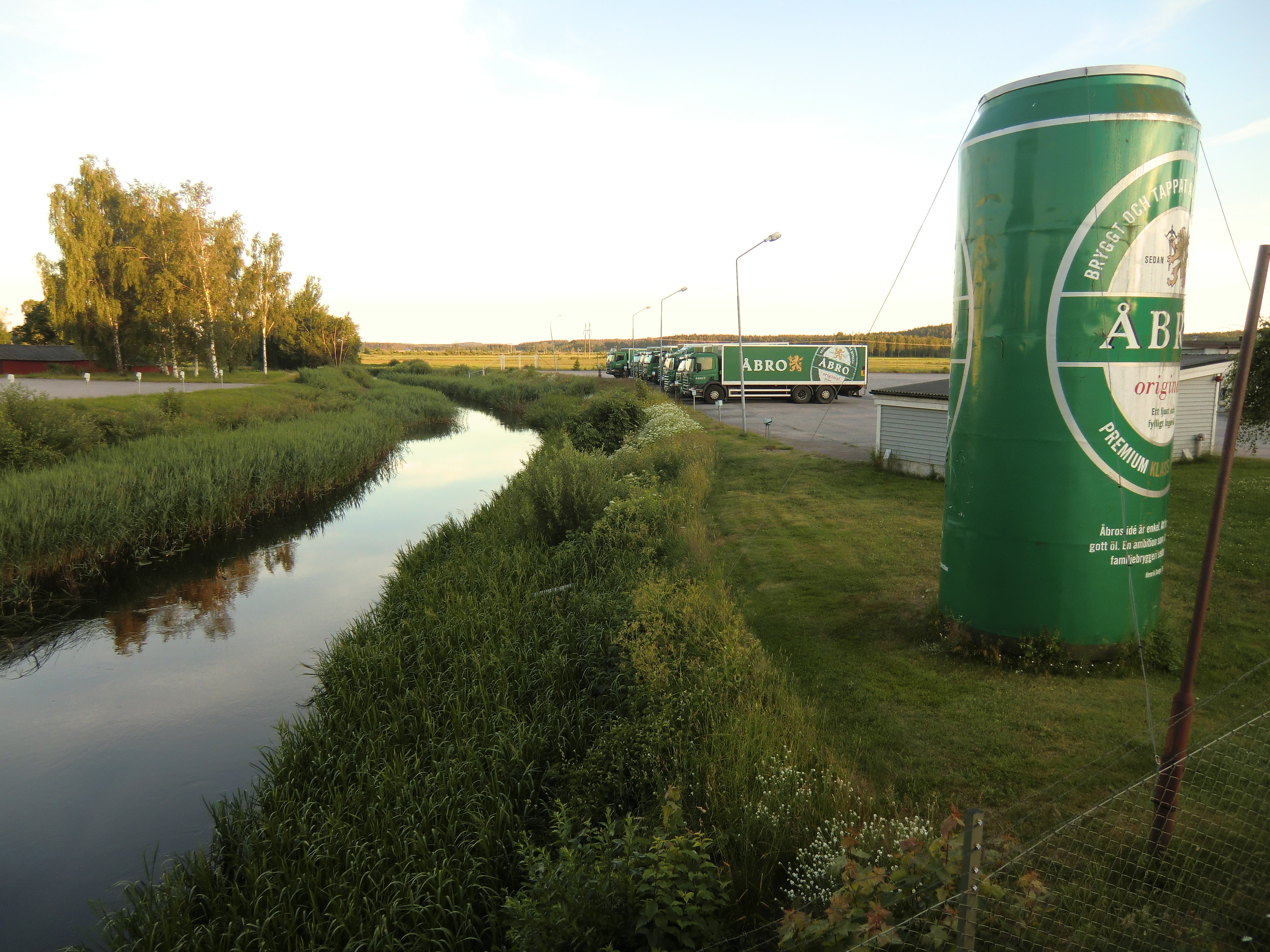 River Stångån in Vimmerby, Småland, Sweden.